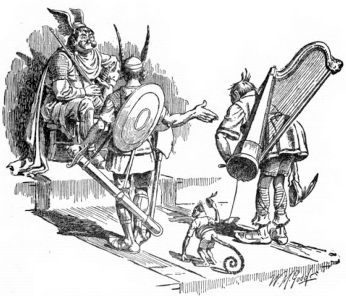 This image comes from Bill Nye's "Comic History of England". The numbers shown are the book page numbers. The text shown is the caption beneath the image. Follow the image to the link which leads to the full book